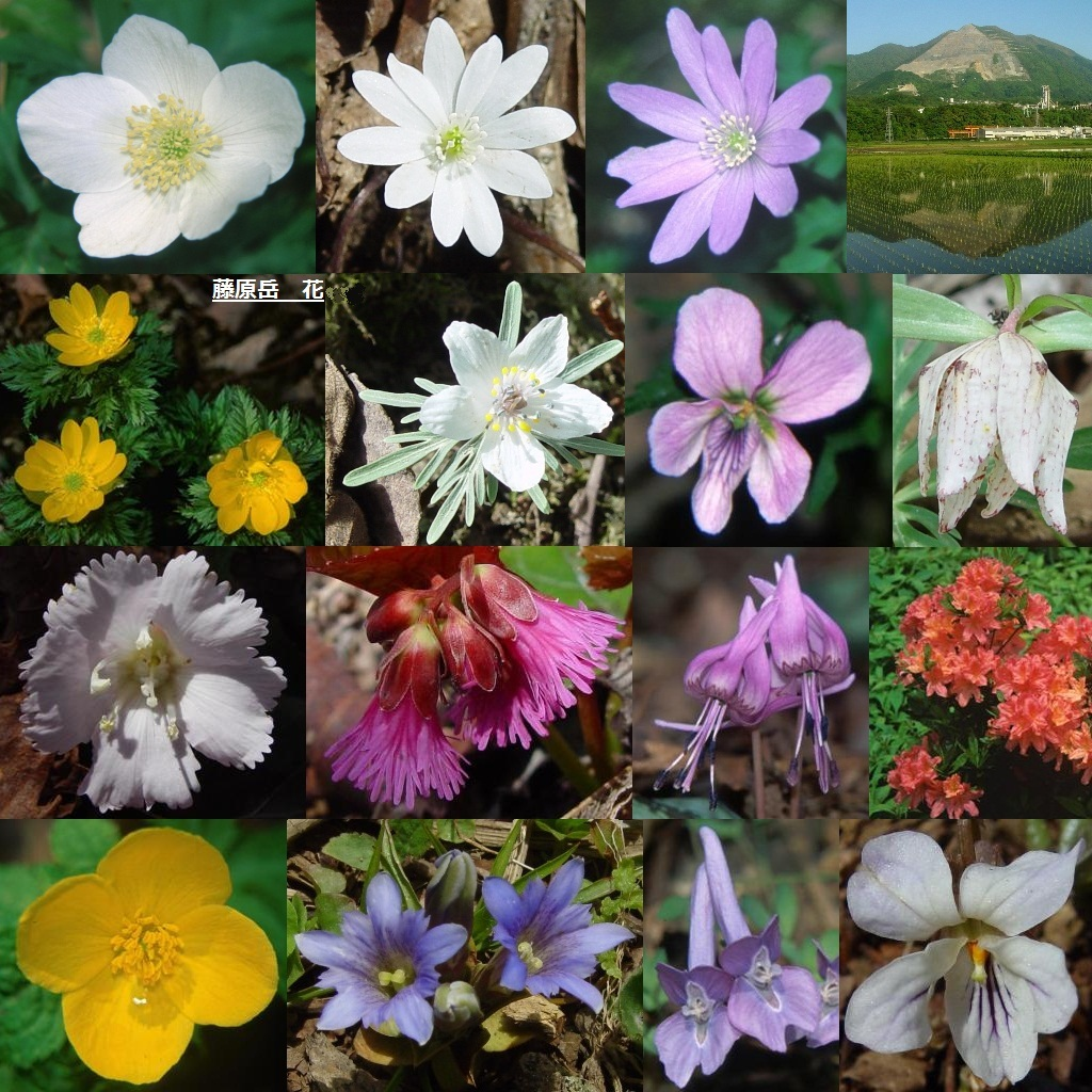 Hujiwaradake_flowers_2008_5_6 and other days